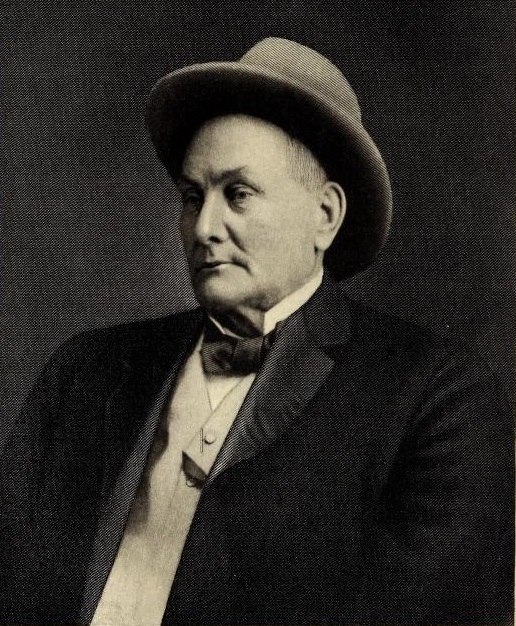 Horace W. Bailey (US Marshal for Vermont) 2.